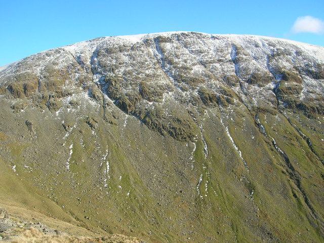 Thornthwaite Crag From Threshthwaite Crag